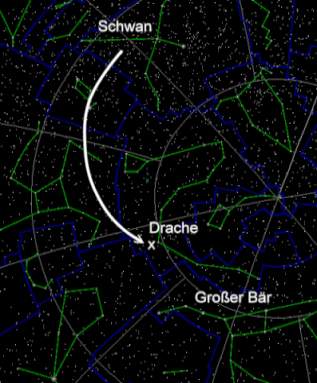 distance traveled by PSR B1508+55 during its lifetime of 2.5 Mio years with a speed of more than 1000 km/s.